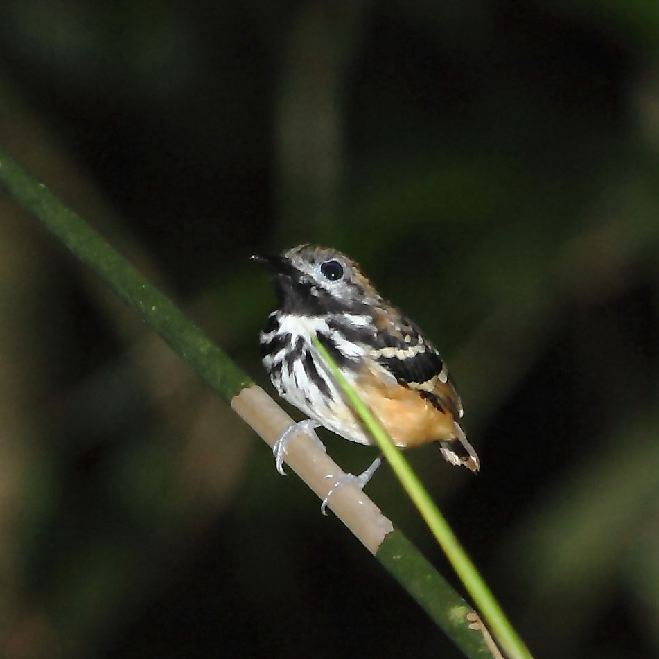 Dot-backed Antbird at Apiacás - MT - Brazil